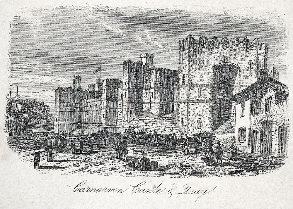 Abstract: Loaded horse-drawn carts in front of castle.